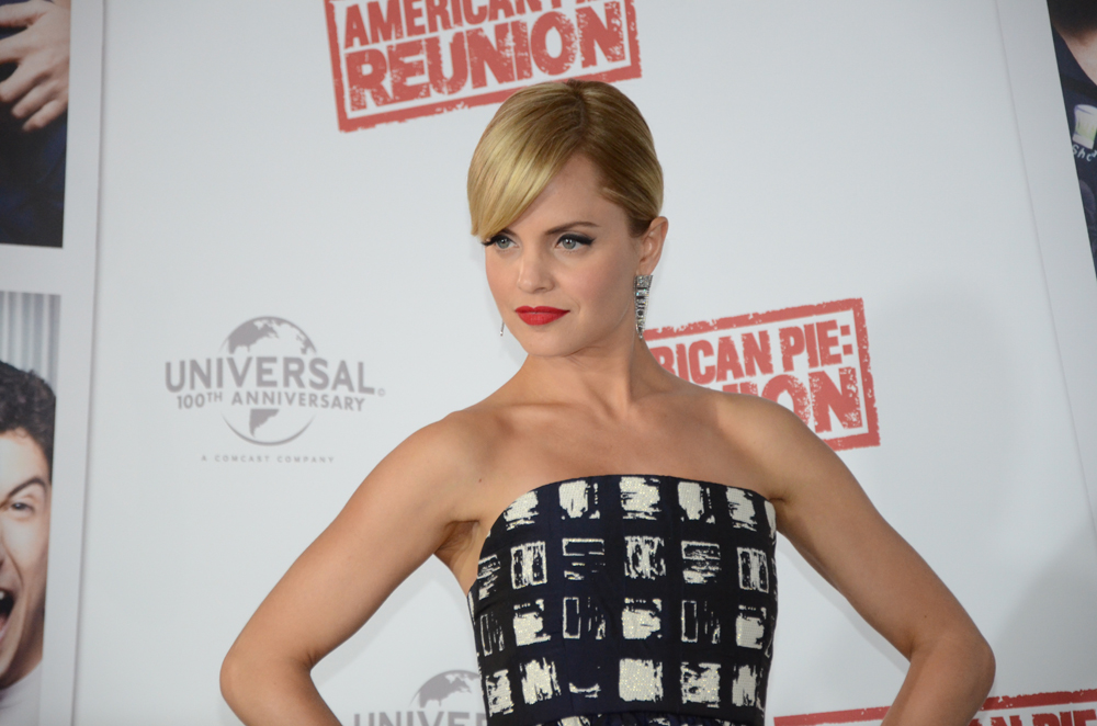 American Reunion Premiere In Melbourne: Australia Loves Latest Pie Flick